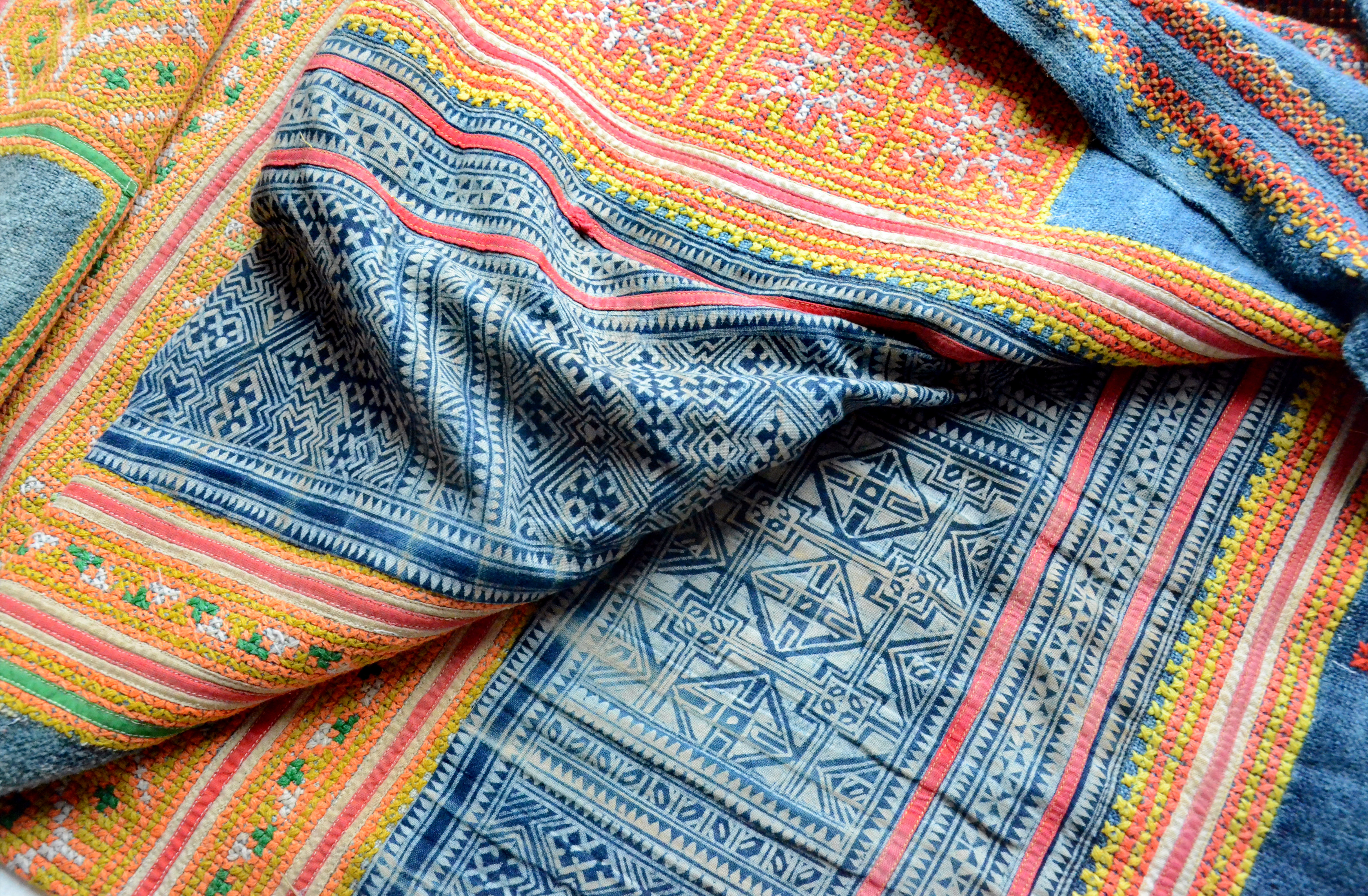 Subject to verification, it is old fabric is embroidered with traditional motifs by the Hmong (an ethnic group called "minority" in Vietnam, also present in several neighboring countries). This fabric is a large "panel" is an assembly of relatively thick piece of cotton fabric and stained blue indigo. elements of thinner and lighter cotton are integrated in the fabric. They are colored and decorated by the technique of "batik wax" (with natural indigo dye). The geometric patterns are embroidered cross stitch directly on the tissue most magnified. . Note: In some cases, the decorative "cross stitch" can be directly superimposed on the pattern of batik cotton end (by weakening).